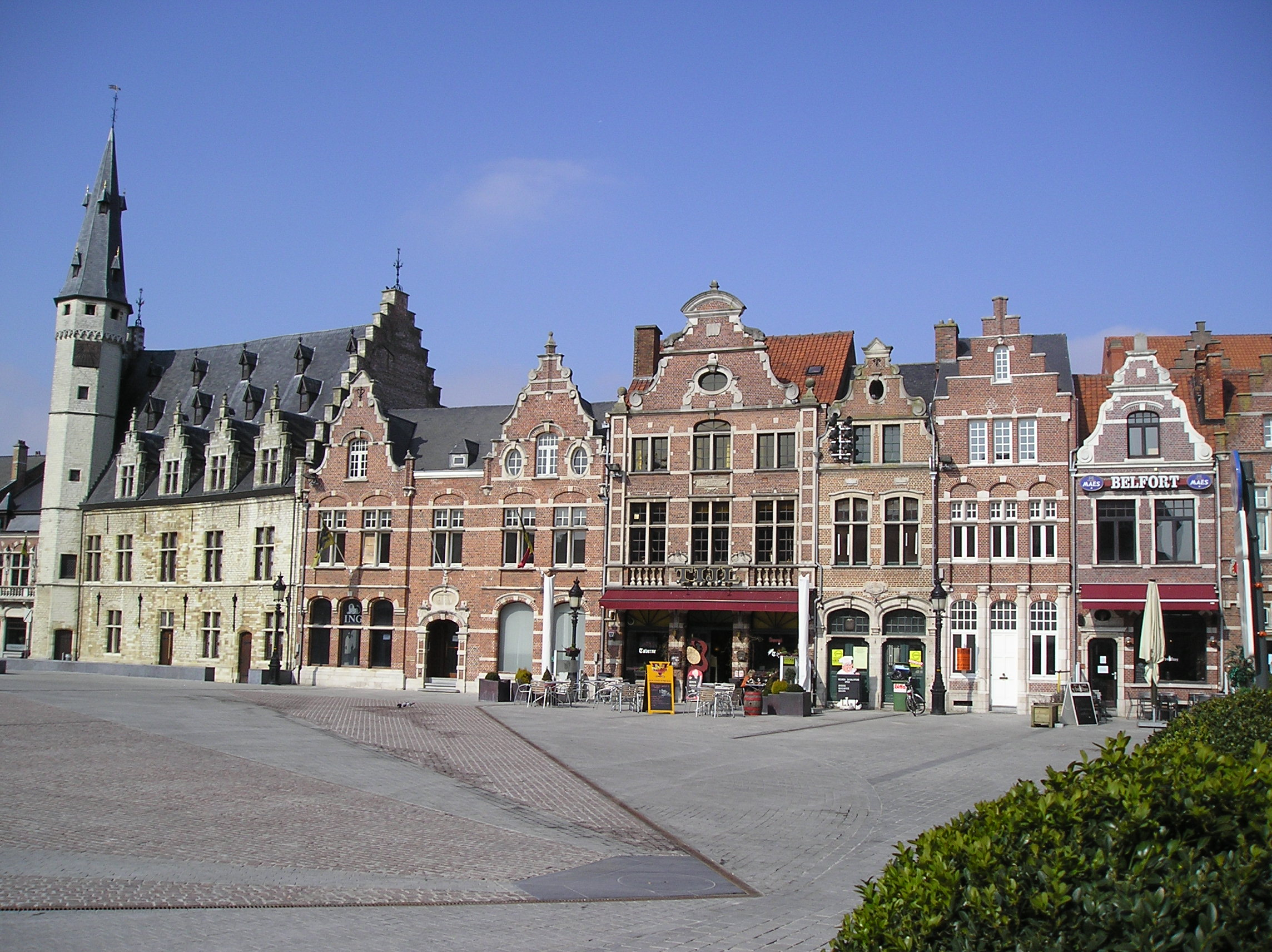 Houses on the Grote Markt square in Dendermonde (Belgium).